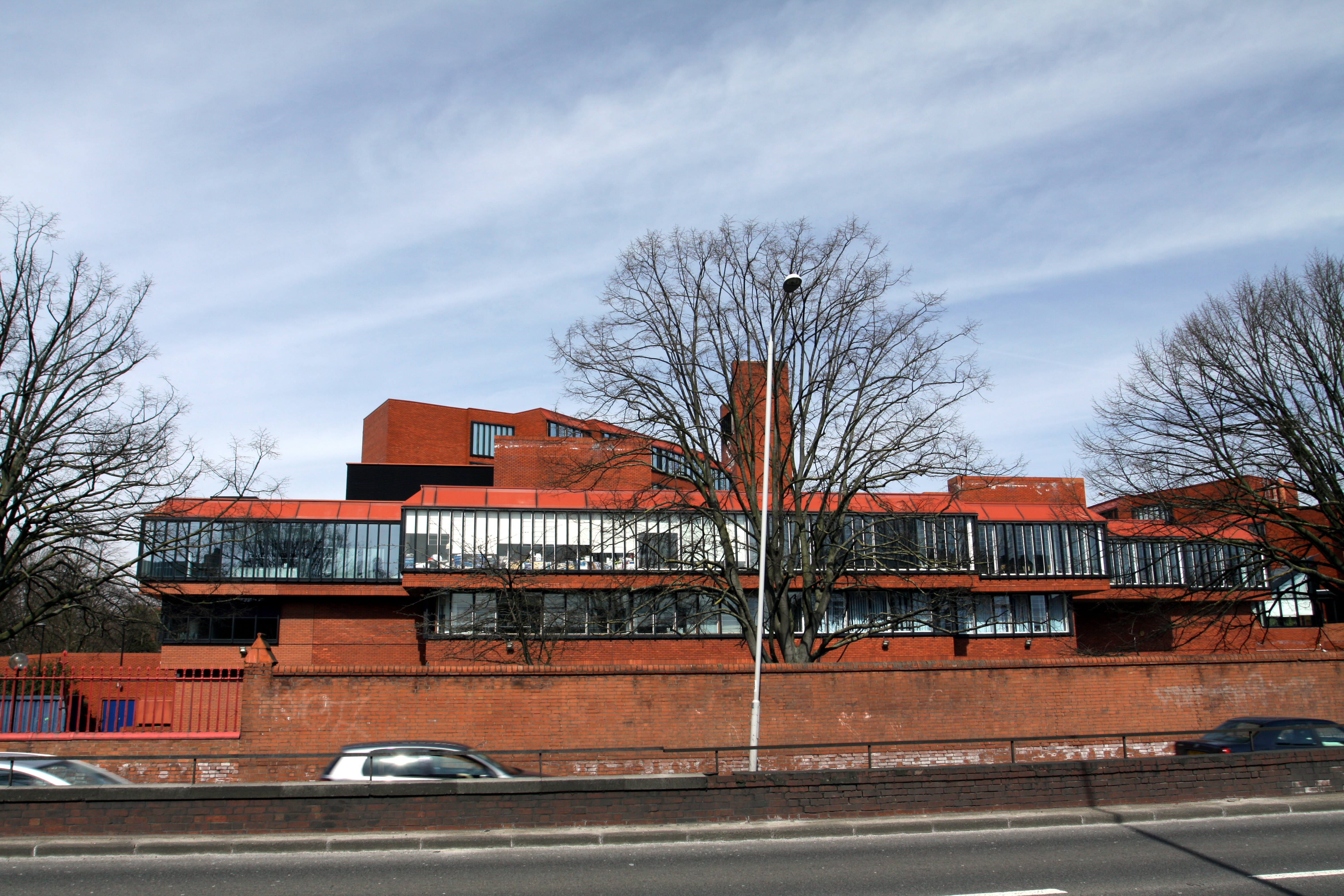 Hammersmith Campus of Ealing, Hammersmith and West London College in the London Borough of Hammersmith and Fulham, Great Britain. The making of this file was supported by Wikimedia UK.